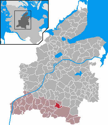 Locator maps of municipalities in Schleswig-Holstein - District Rendsburg-Eckernförde